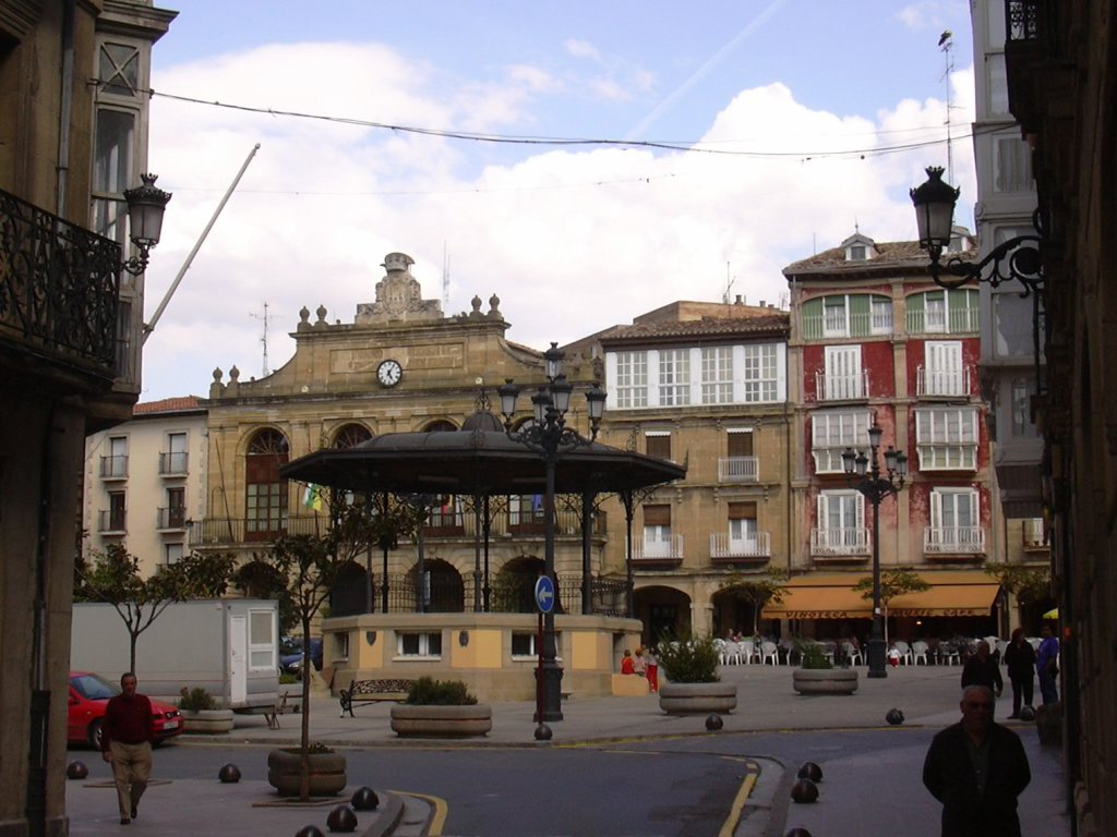 Main square of Haro (La Rioja, Spain).